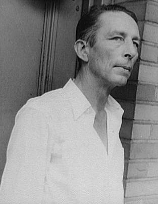 Photo of Robinson Jeffers